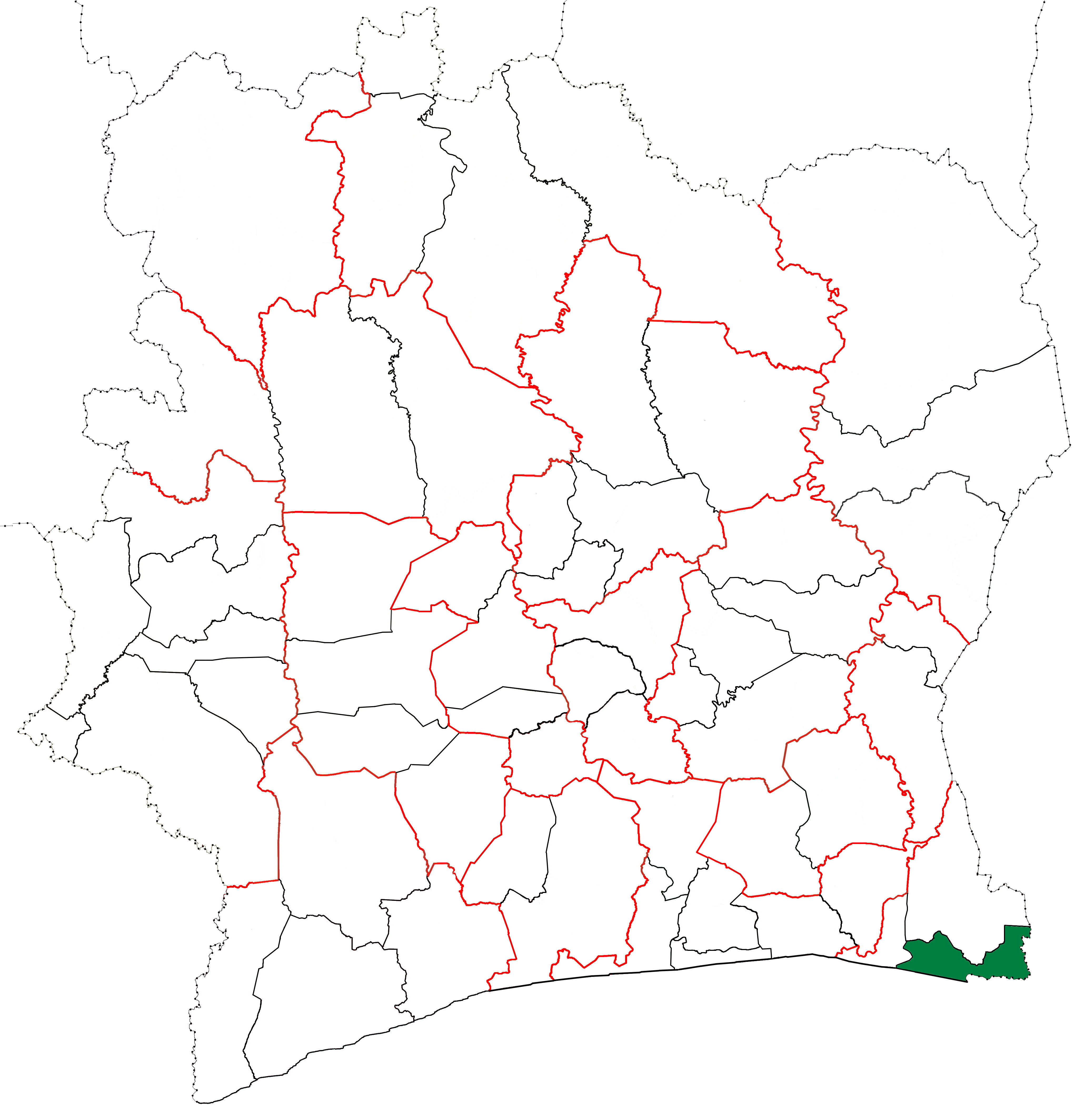 Locator map for Tiébissou Department in Côte d'Ivoire when it was created in 1998. Tiébissou Department kept these boundaries until 2008, but other boundary changes to subdivisions of Côte d'Ivoire began to be made in 2000.